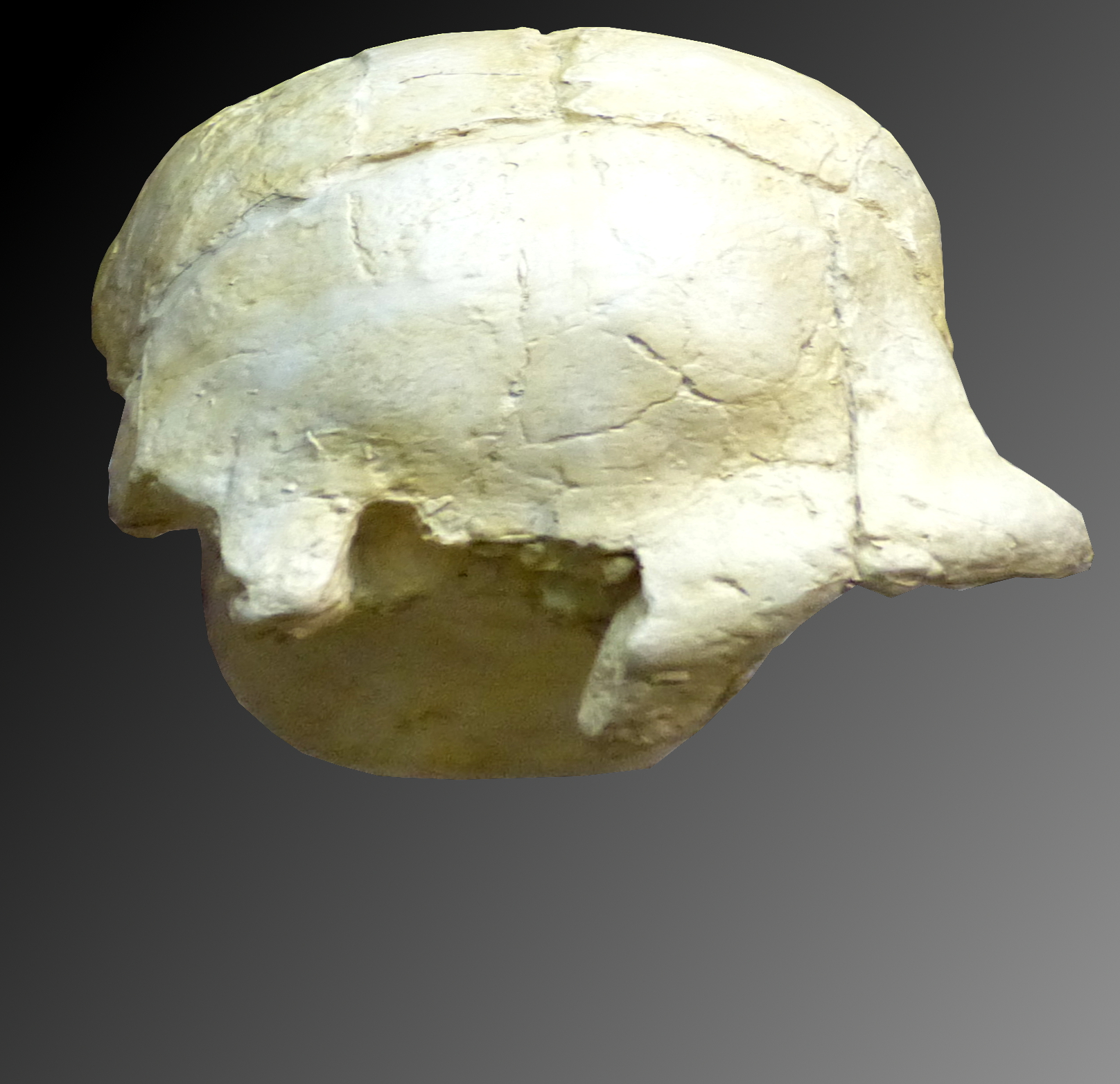 The Ehringsdorf H skull cap, reassembled from ten pieces (H1 to H10).